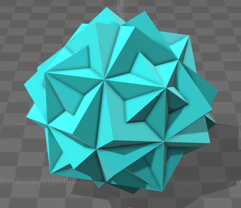 5-Cube Compound with octahedral symmetry.